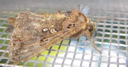 Argyrogramma signata (Fabricius,1775) Noctuidae - Plusiinae Length: 15mm approx. Picture taken in Réunion